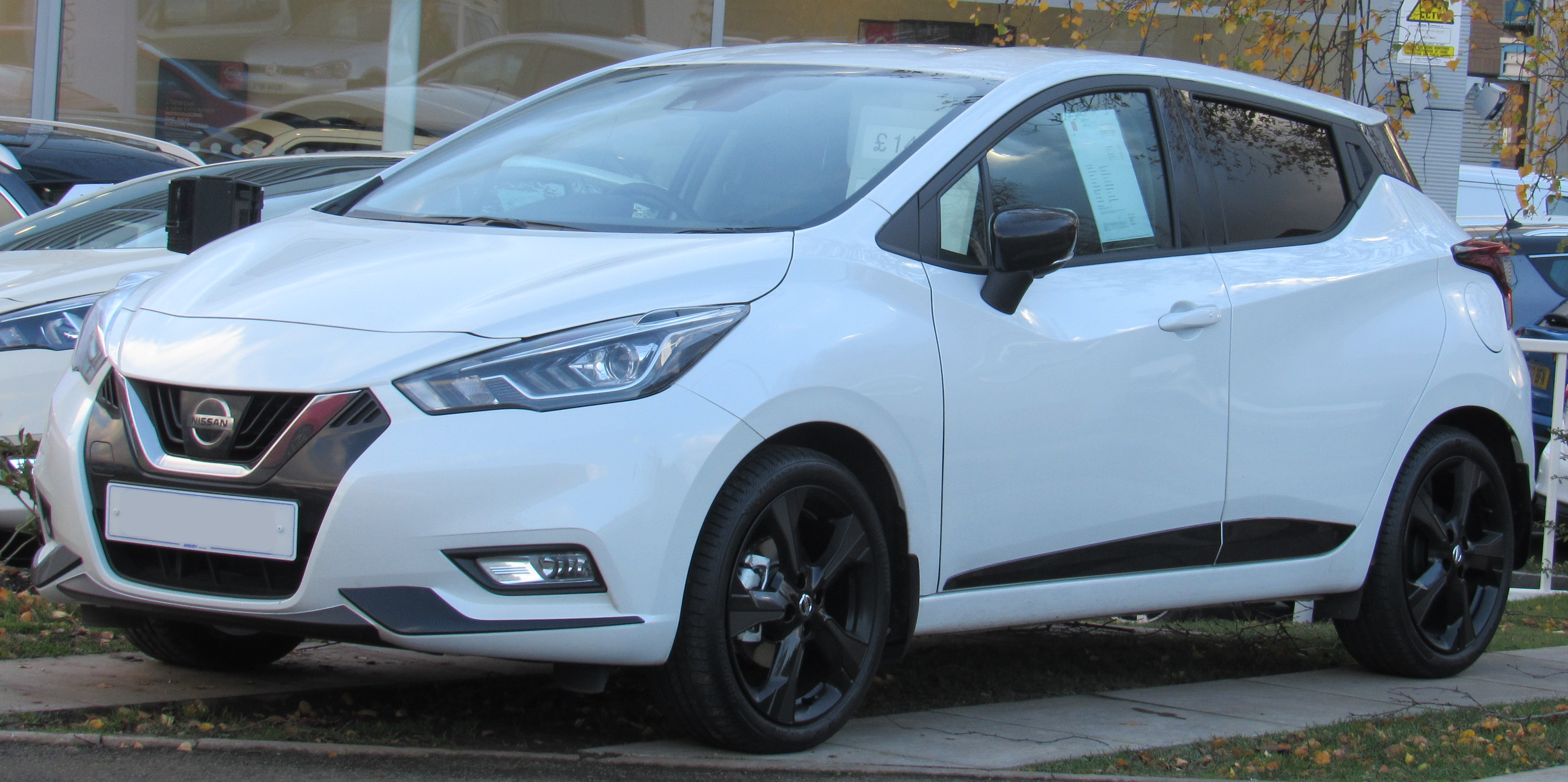 2017 Nissan Micra IG-T Tekna Front Taken in Leamington Spa